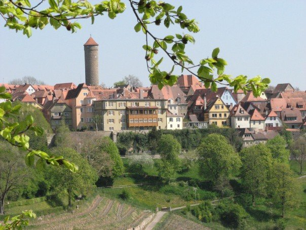 Rothenburg ob der Tauber from the Castle garden 23APR2007